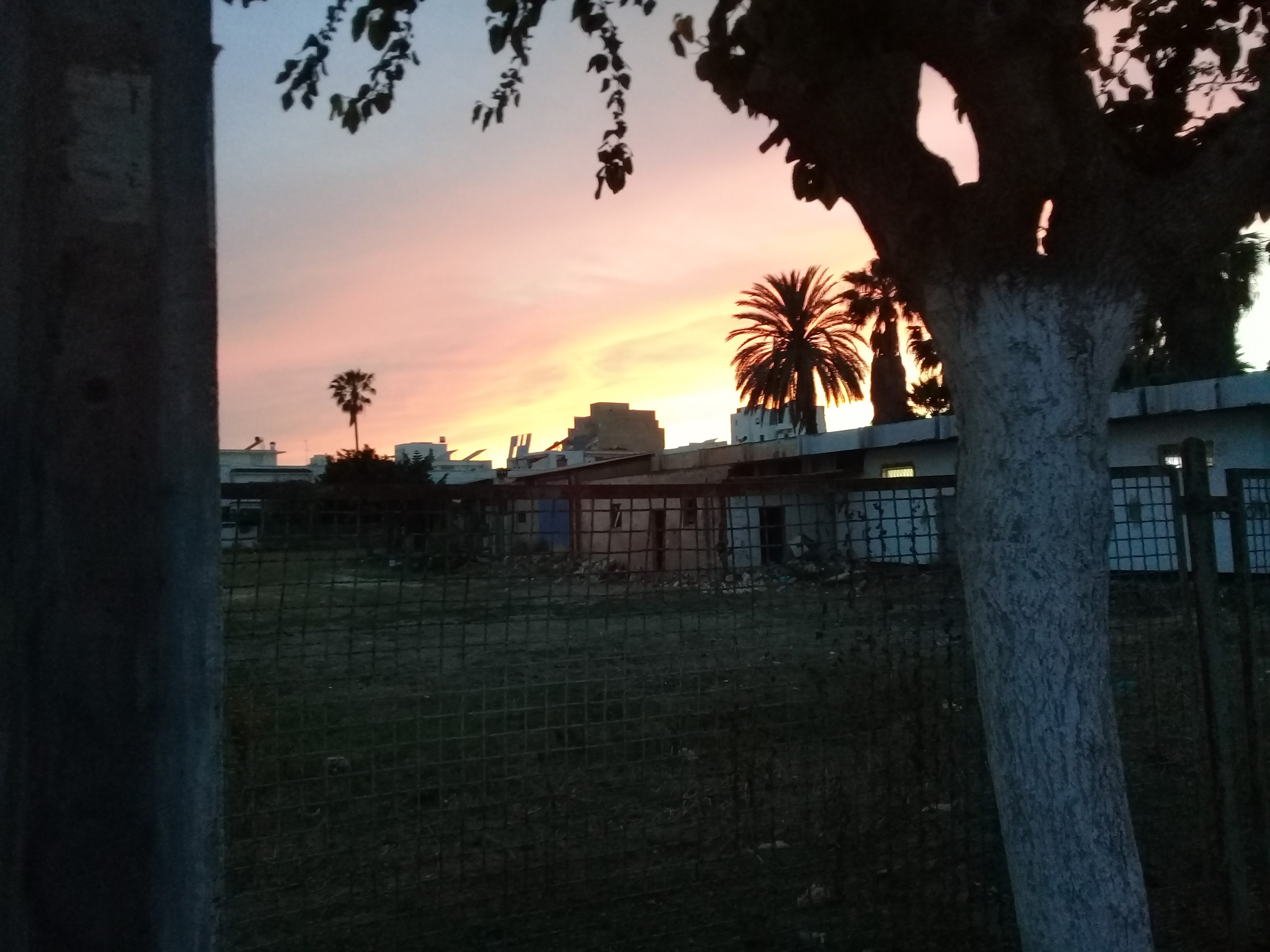 Sunset in Nabeul, Tunisia